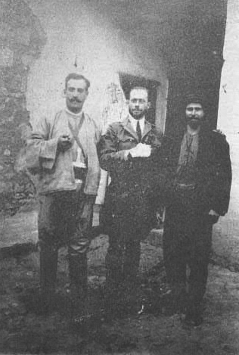 Fawzi al-Qawiqji and Nasib al-Bakri during the Hama Rovolt of 1925from left to right: Nasib al-Bakri, Fawzi al-Qawiqji, Abu Muhiddine Shaaban